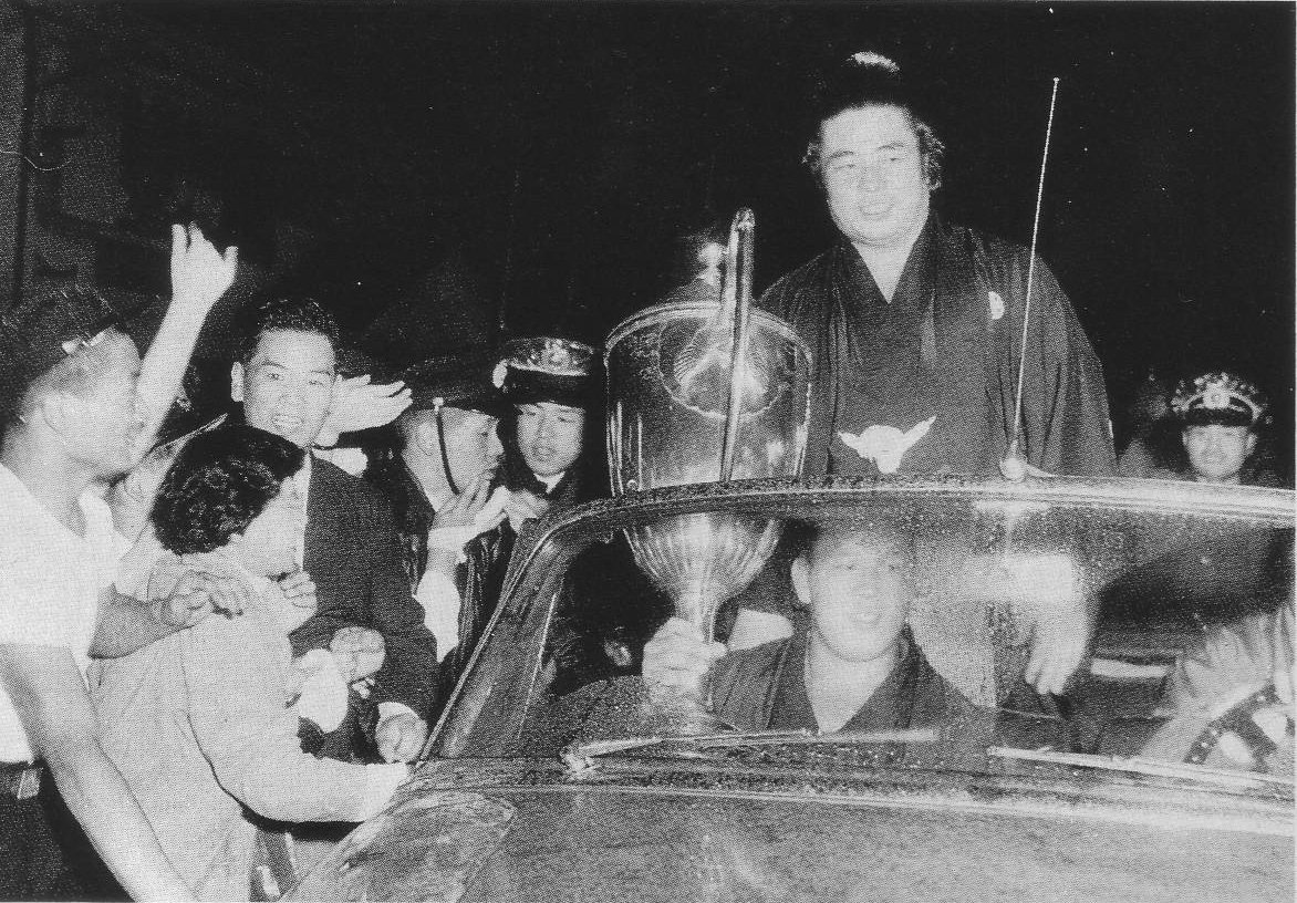 Tochinishiki (1954).